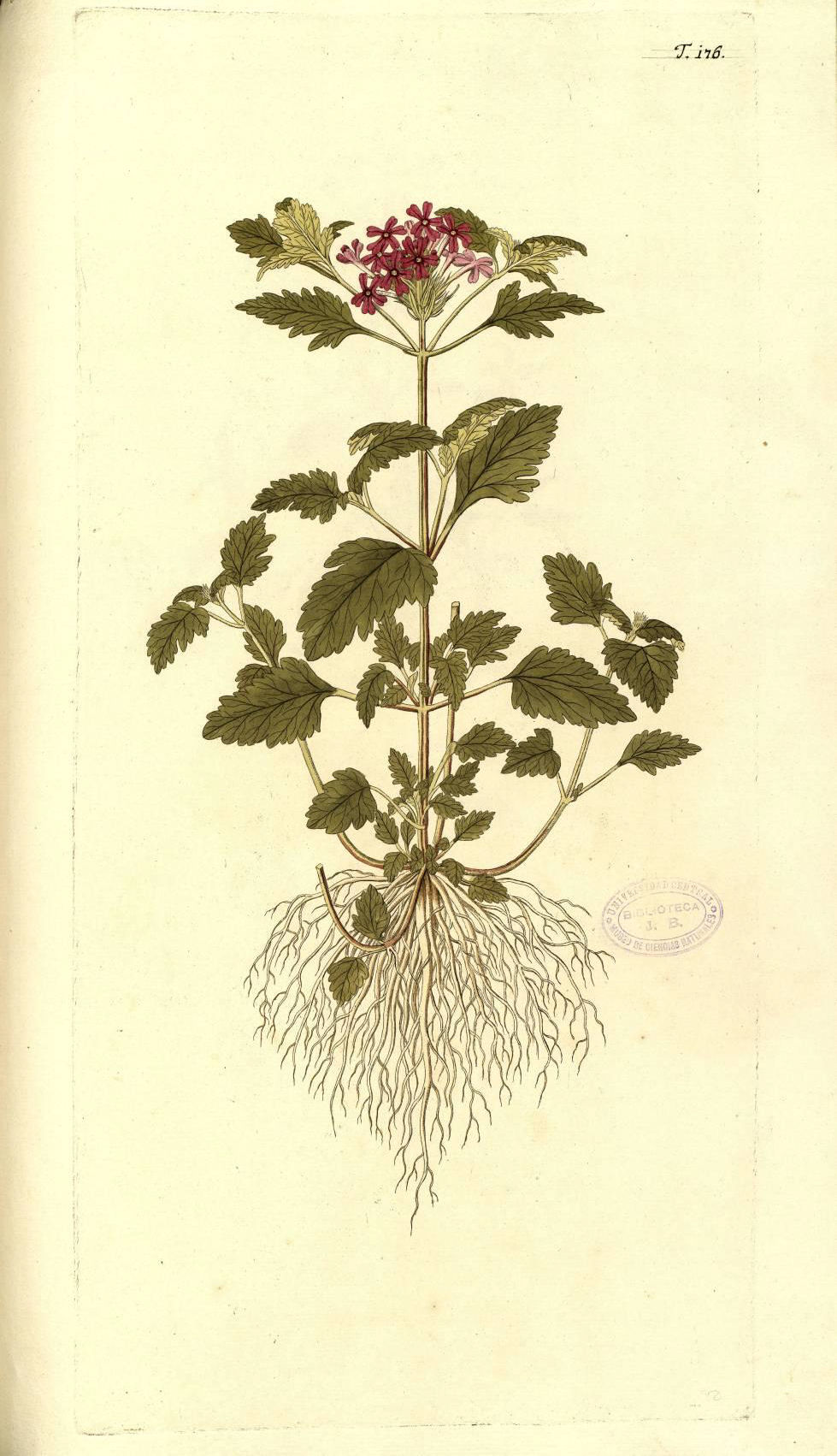 Jacquin, N.J. von (1772), Hortus Botanicus Vindobonensis vol. 2, plate 176, depicting Verbena aubletia Jacq.